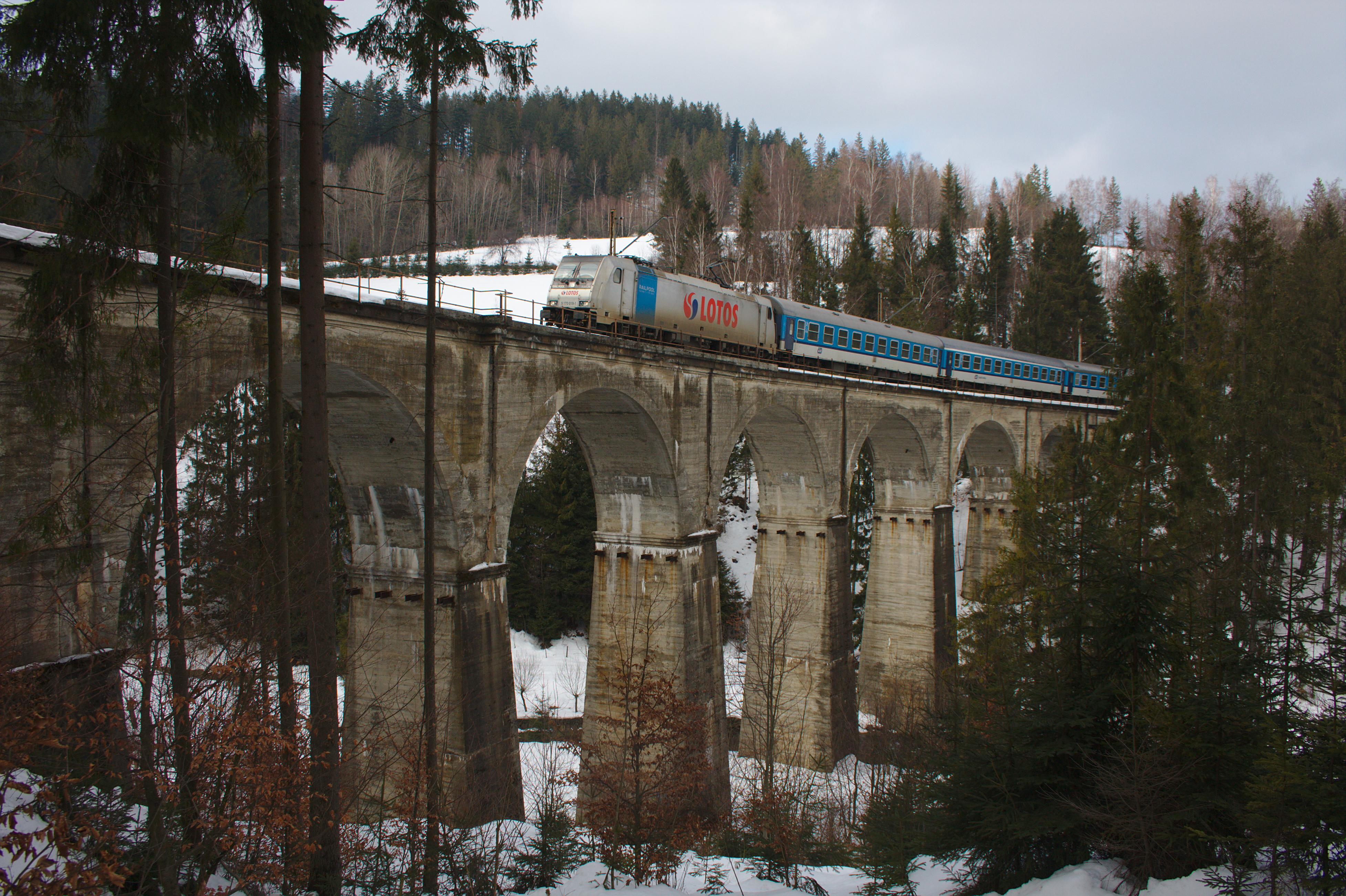 Koleje Śląskie train KŚ44013 "Beskid" reaches the Wisła Głębce train station. It is passing Łabajów valley bridge.